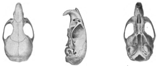 Adult male holotype skull of Oryzomys navus (=Oligoryzomys fulvescens) from Pueblo Viejo, 8000 ft altitude, Santa Marta Mountains, Colombia. Bangs Collection, nr. 8107. Drawn from nature.